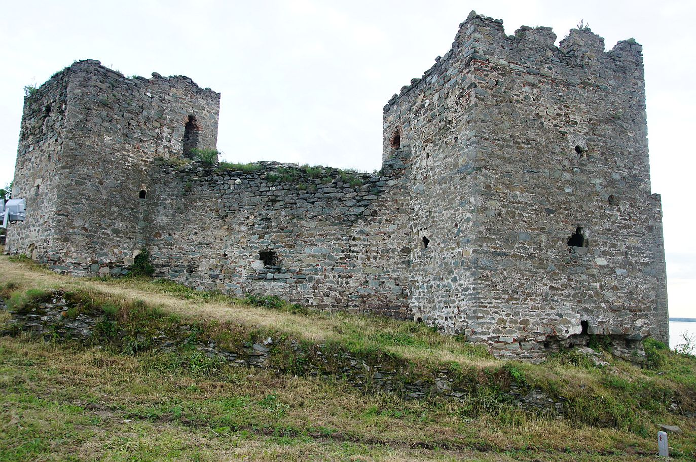 Ram castle